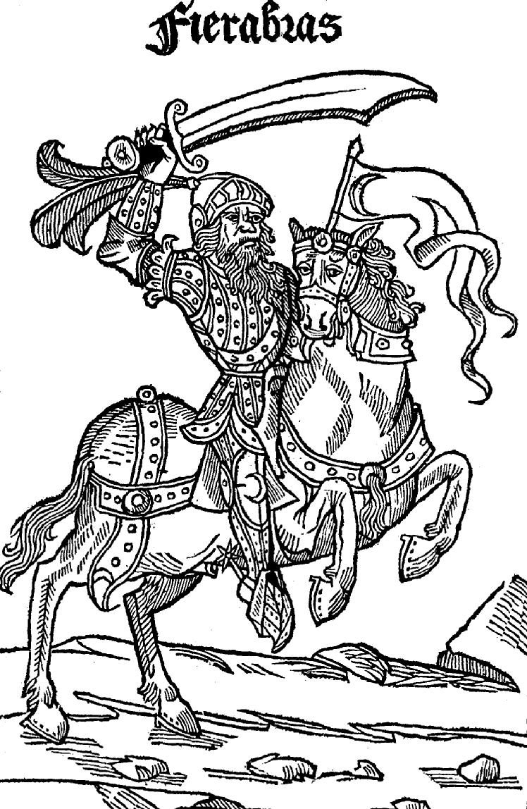 A picture of the knight Ferabràs